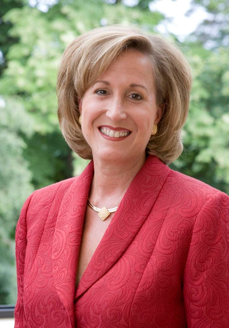 Ann Wagner, U.S. Ambassador to Luxembourg.